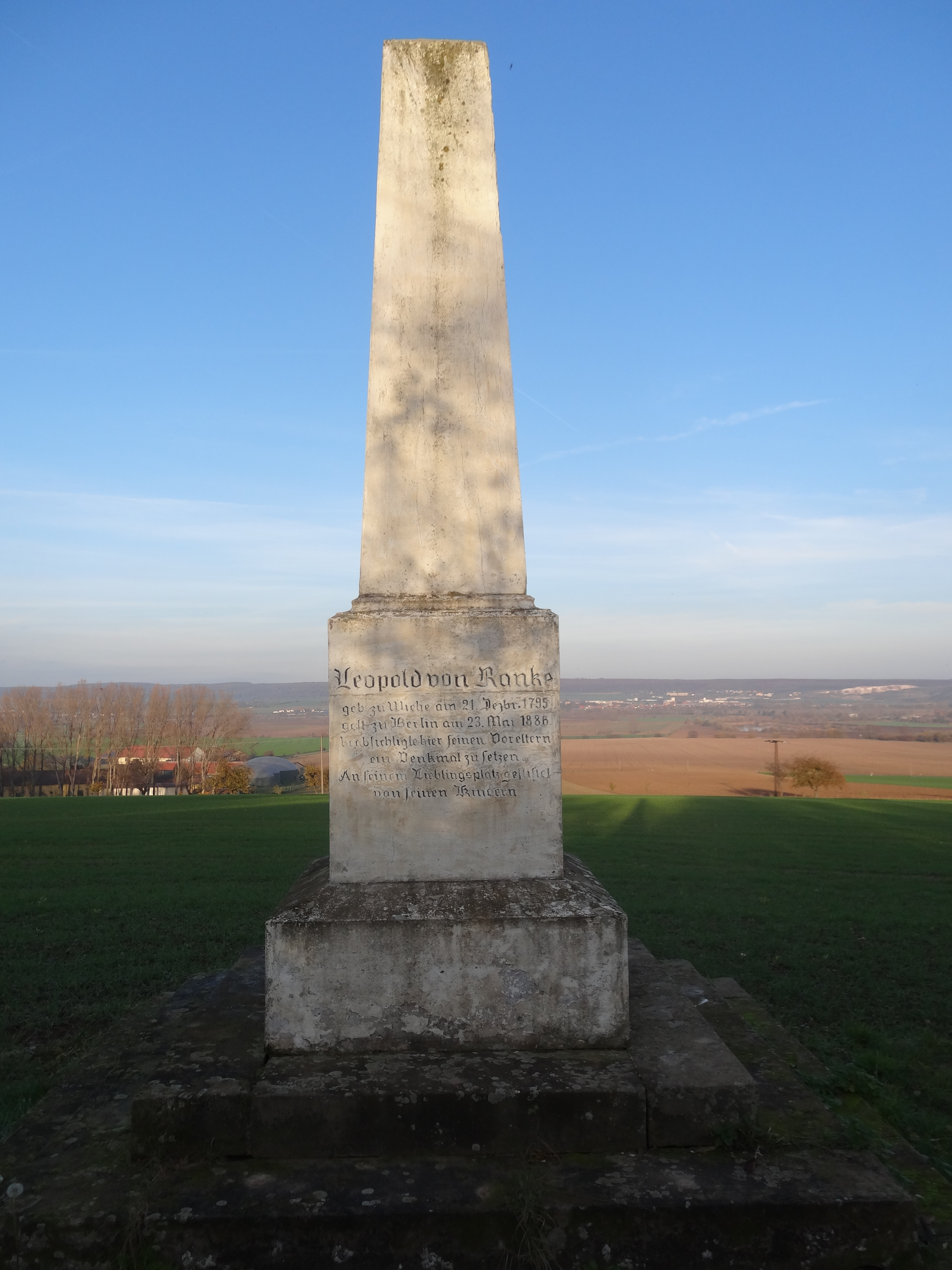 Ranke memorial near Wiehe, Thuringia, Germany